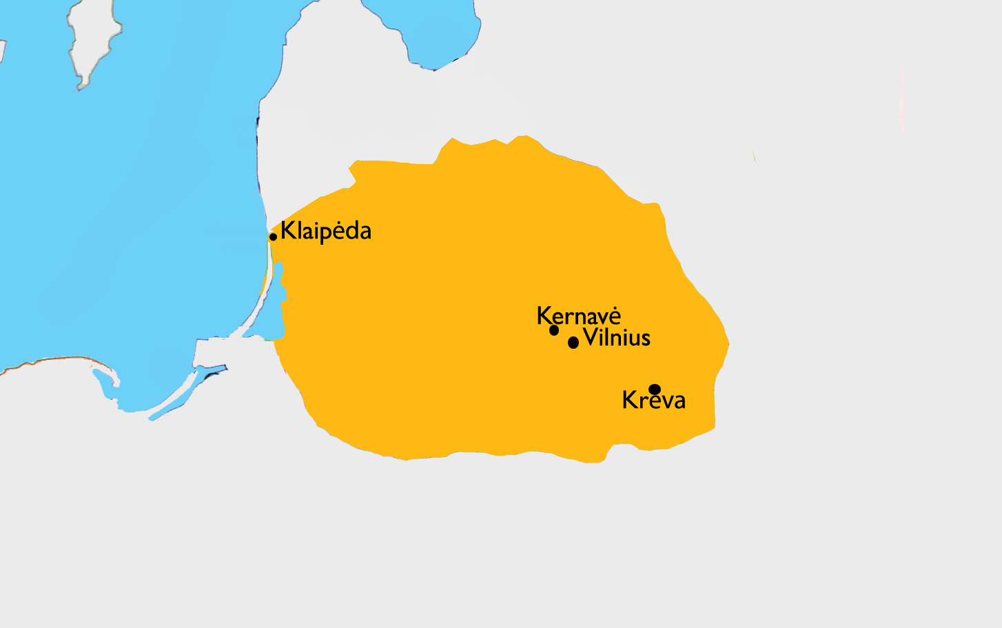 Historical map of Lithuania 1230-1240